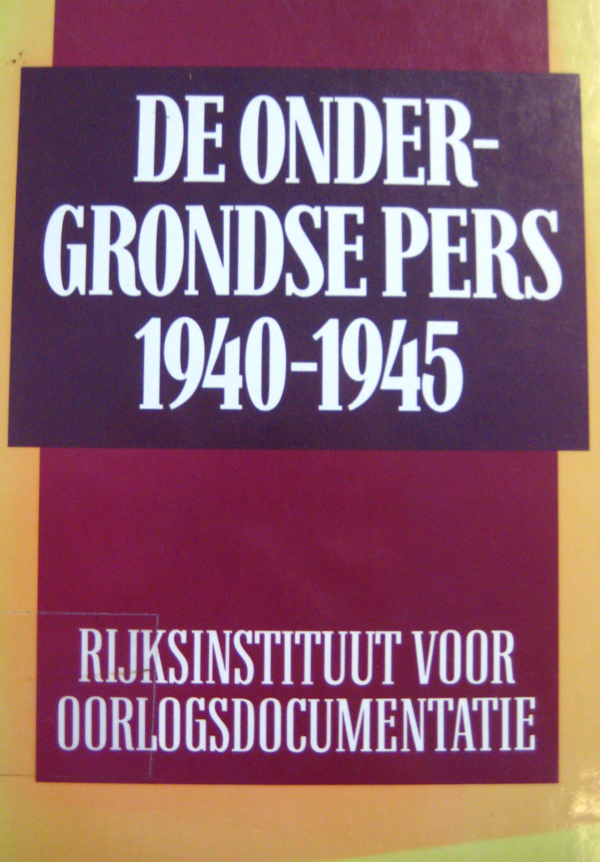 Cover of De ondergrondse pers 1940-1945, Author: Lydia Winkel - 3rd edition 1989 by Hans de Vries